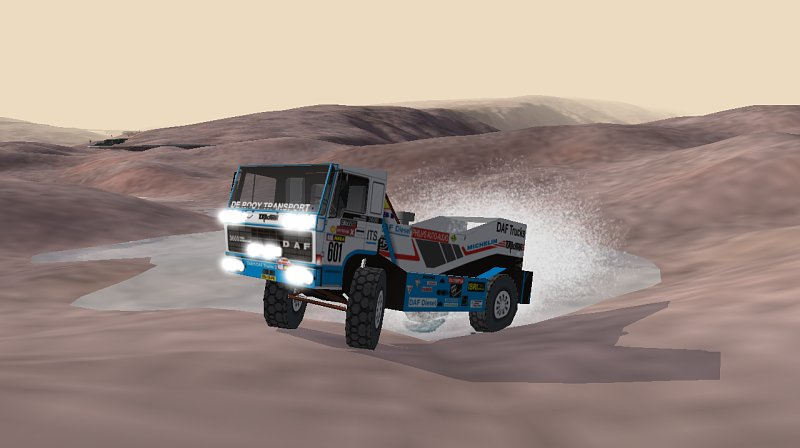 New water effects: splash, ripples, and dripping!